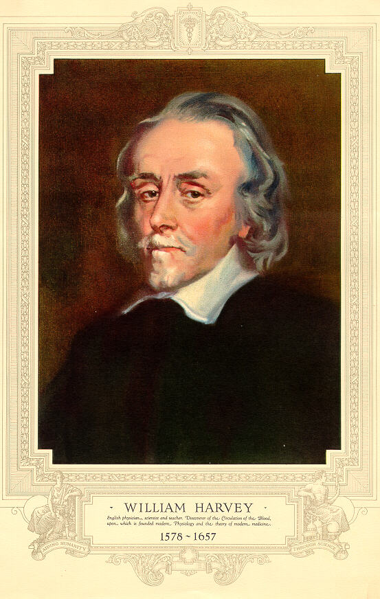 William Harvey